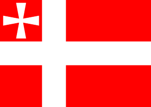 Flag of Volhynian Oblast, Ukraine